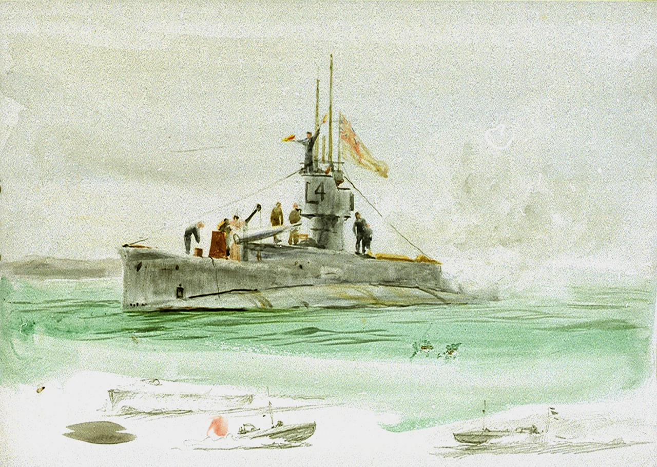 Submarine 'L4' on the surface This drawing is an accurate depiction of the submarine 'L4' (1917) in 1918 or early 1919, as built, and apparently proceeding to sea from the diesel smoke aft. She was built by Vickers at Barrow, launched on 17 November 1917 and completed on 26 February 1918. In 1919 she was modified and her disappearing gun (on the raised casing just aft of the torpedo hatch) was removed and a new gun position fitted on a raised platform in front of, and attached to, the conning tower. She is shown loading an 18-inch practice torpedo (with no warhead) and a signalman is semaphoring from the conning tower. Note that many published sources, including 'Janes Fighting Ships' and Dittmar & Colledge's 'British Warships 1914-1919', give her armament as four 21- inch torpedo tubes, but the L1- to L8-class had six 18-inch torpedo tubes (four in the bow and two abeam). The 'L4' was broken up in 1934. The pencil sketches at the bottom are of Thornycroft Coastal Motor Boats (CMBs).